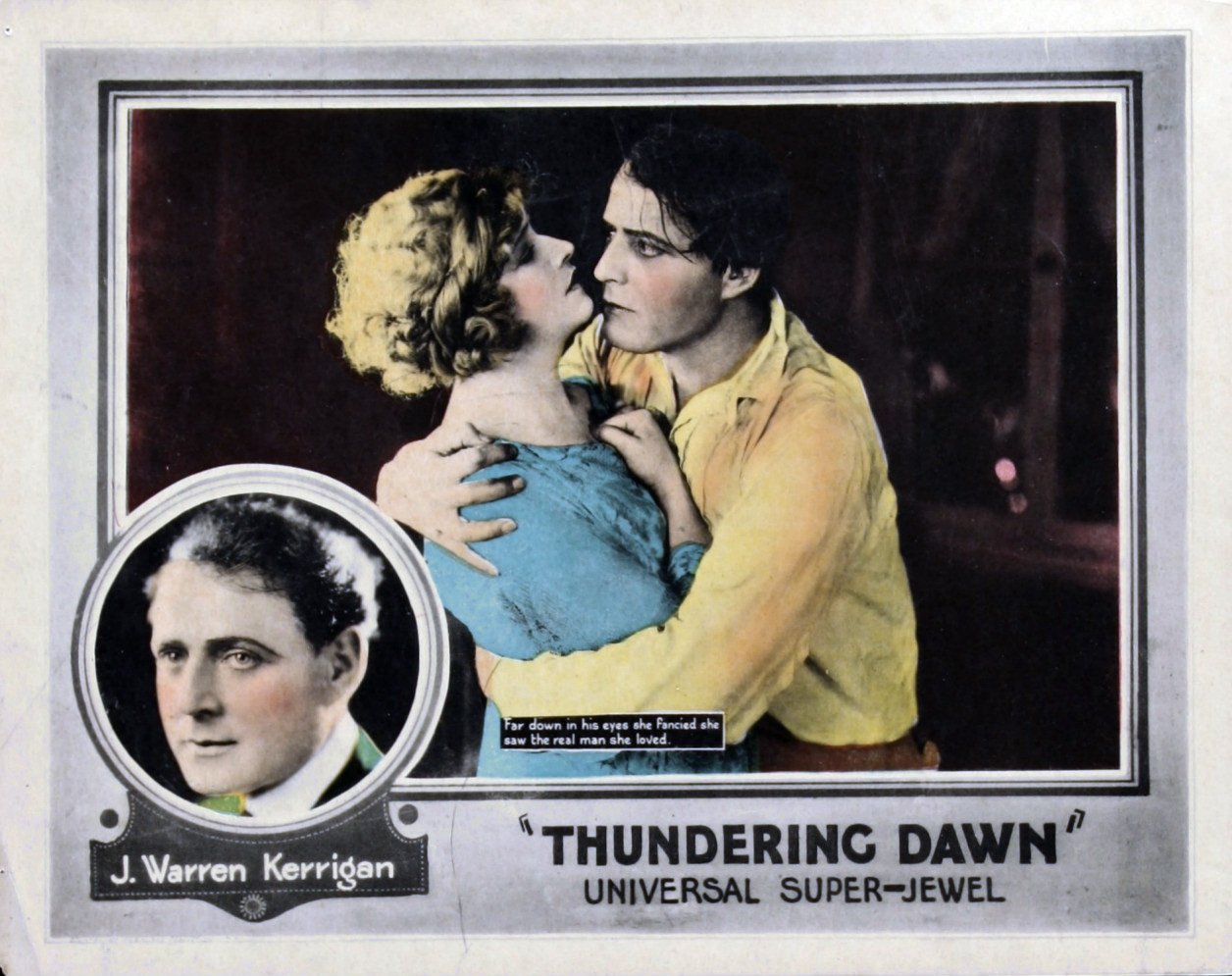 Lobby card for the American drama film Thundering Dawn (1923).